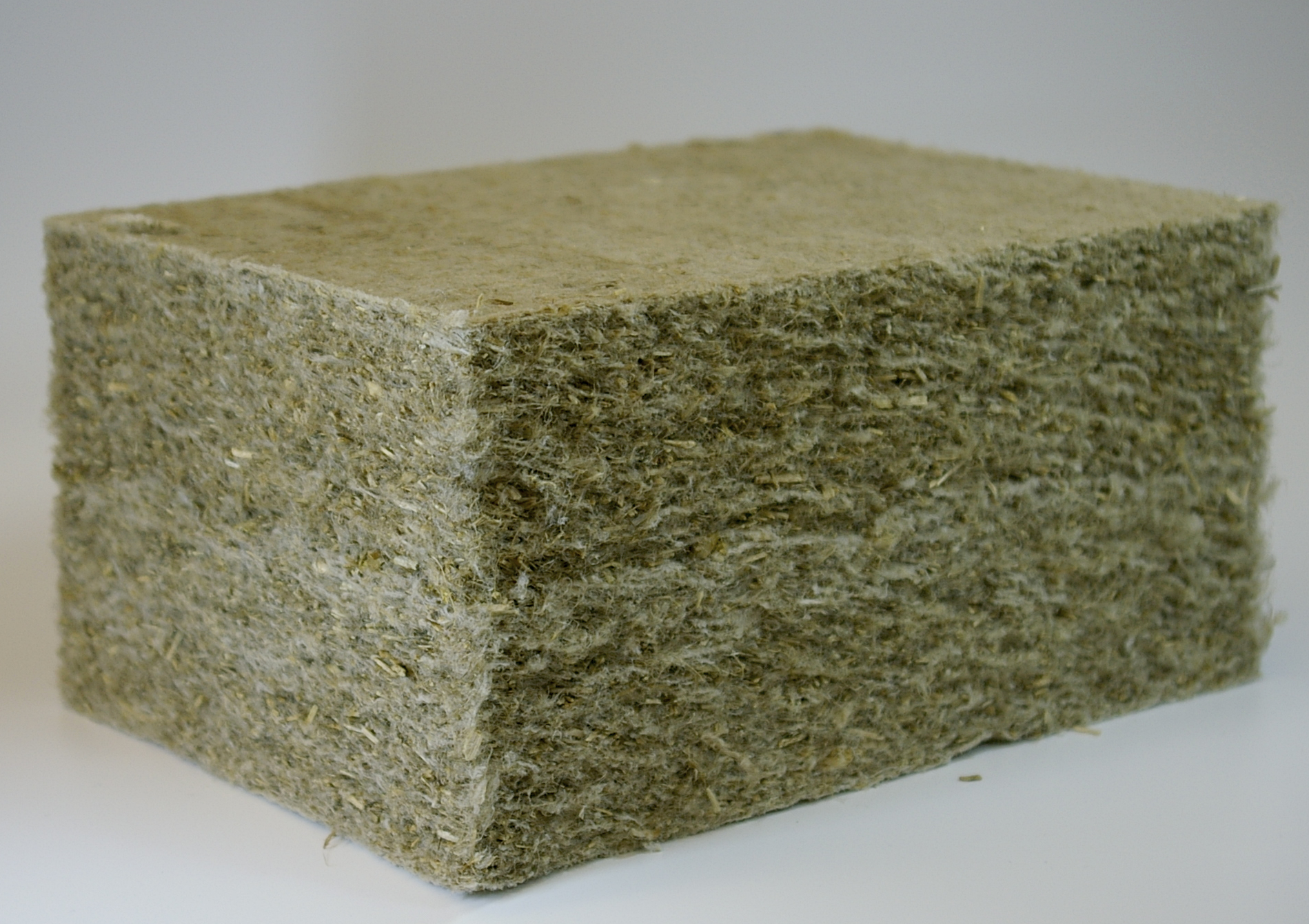 Insulation made of hemp fibres